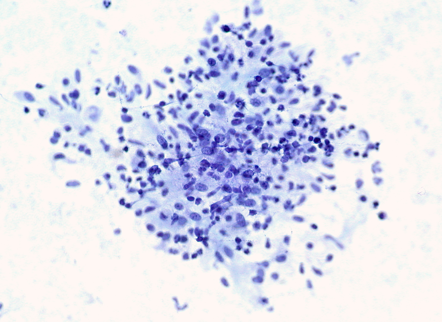 Fine-needle aspirate of one of mutliple cystic masses in the neck of an HIV-positive woman. This was the only group of viable cells (other than neutrophils and lymphocytes) on all the smears. Pathological and histological images courtesy of Ed Uthman at flickr.